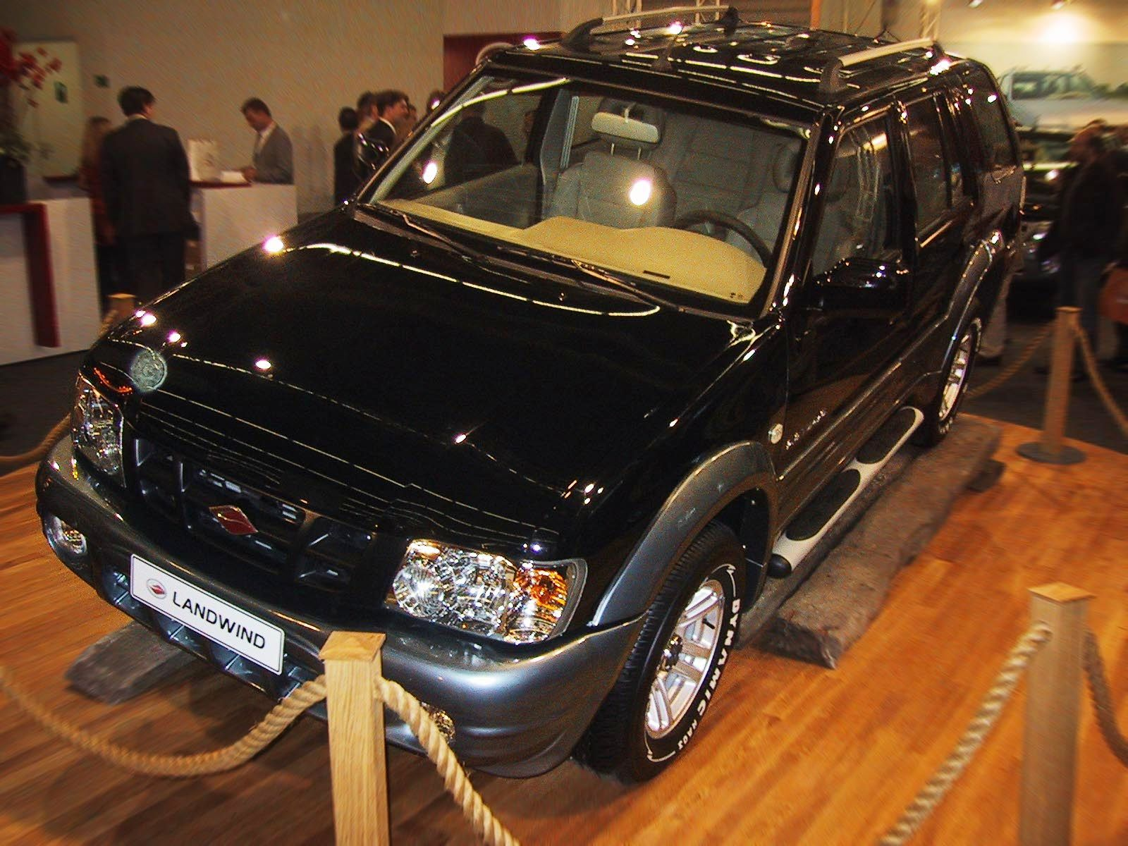 Chinese automobile manufacturer Landwind vehicle